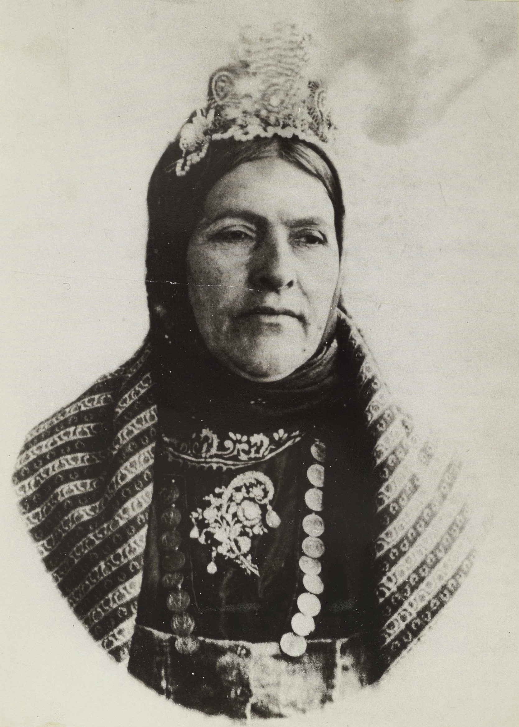 Kuchek Barda Khanom, one of Bahman Mirza's wives.